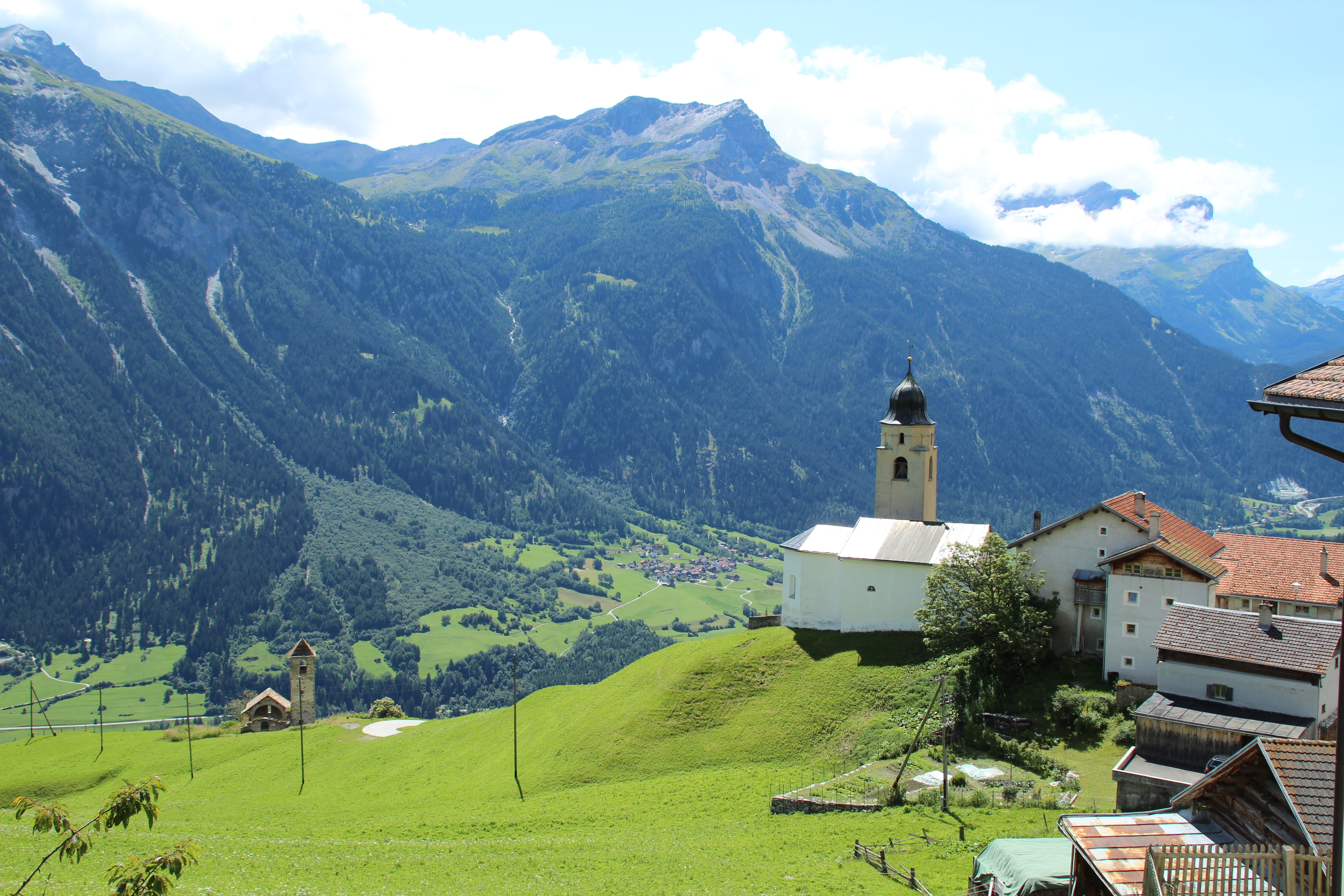 Antoniuskirche Mathon